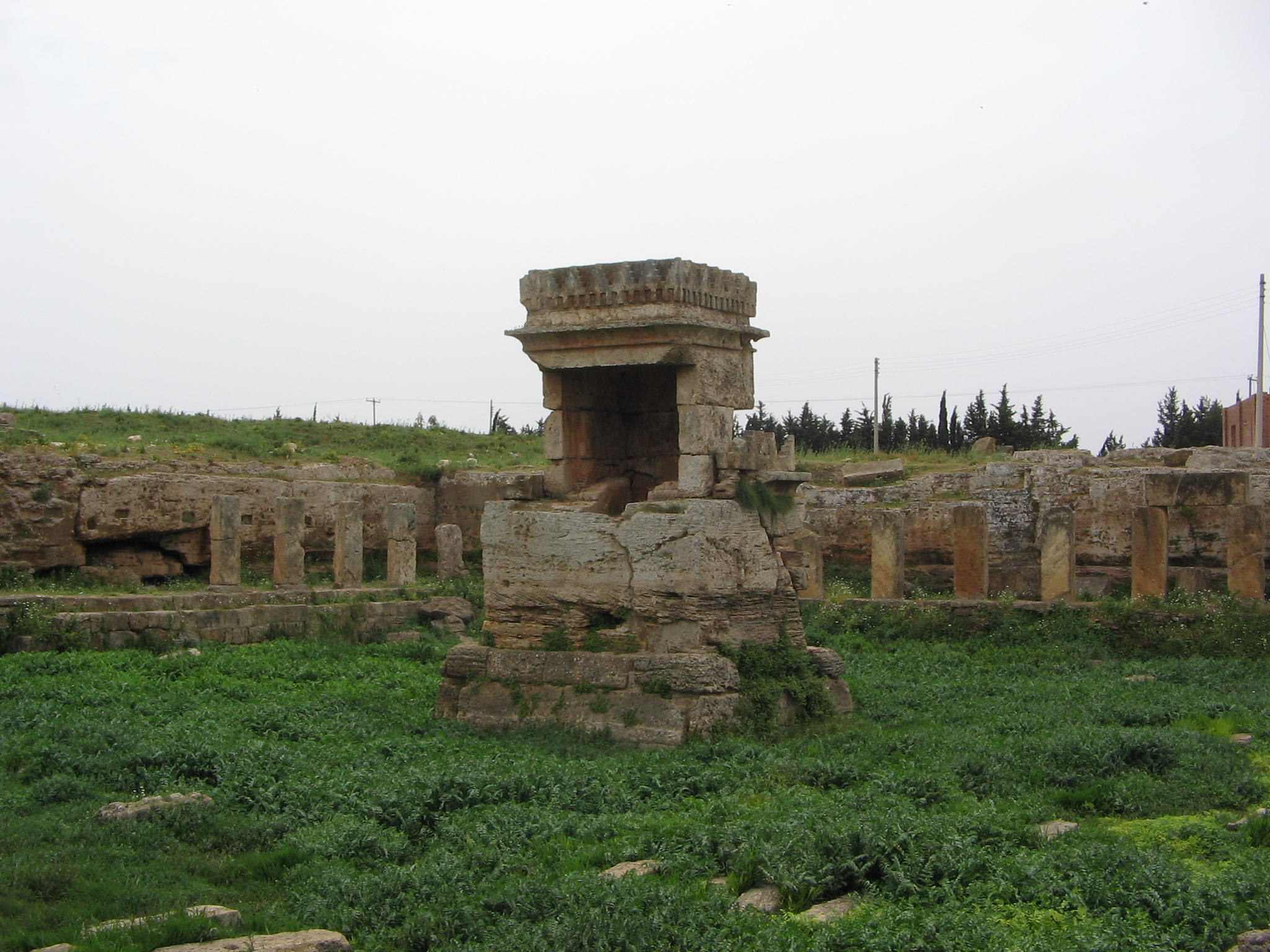 Phoenician Temple (Ma'abed), cella at the center of the court, Amrit in 2006